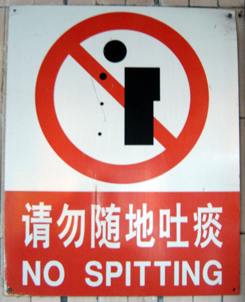 No Spitting sign143799_4f66a39eec_o.jpg